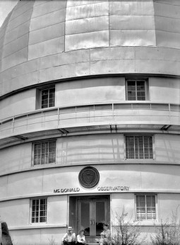 A group of people sitting in front of the entrance to McDonald Observatory. Above the observatory entrance is a sign that reads MCDONALD OBSERVATORY and the Seal of the University of Texas.